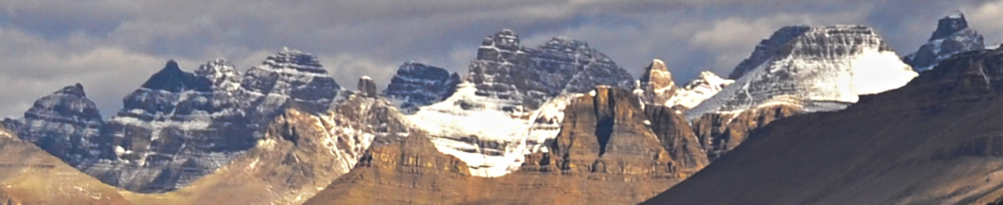 Peyto Lake Overlook of Mistaya Valley. Banff National Park, Alberta Canada